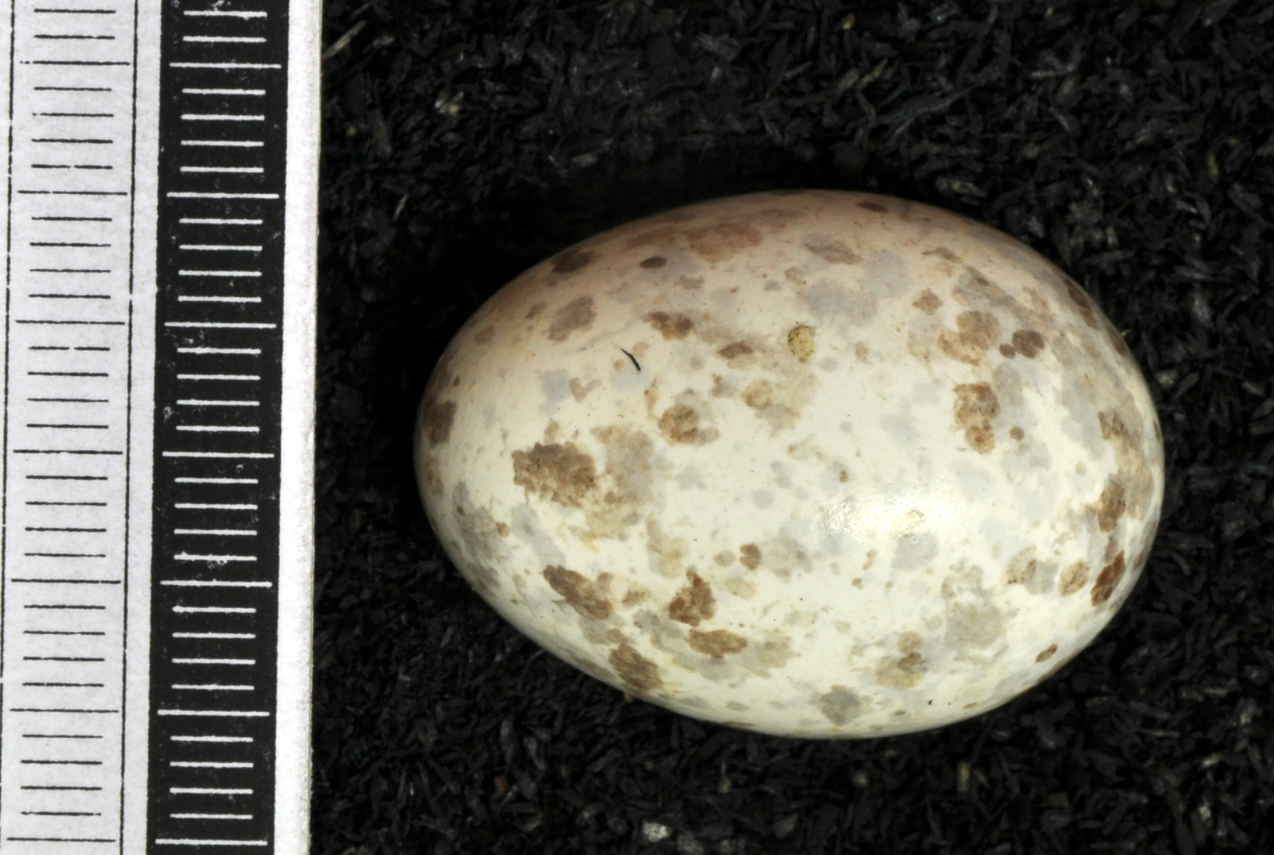 European nightjar Caprimulgus europaeus , egg, Coll. Museum Wiesbaden